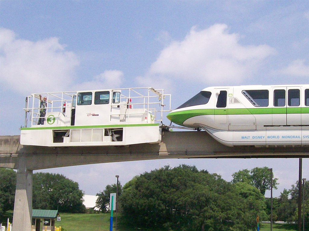 Walt Disney World Monorail Work Tractor 3 tows broken Monorail Green back to the Monorail Shop at Walt Disney World outside Orlando, Florida, United States.